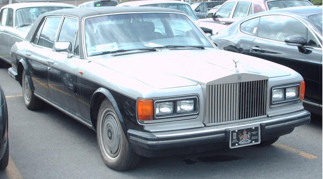 Rolls-Royce Silver Spur photographed in Montreal, Quebec, Canada.